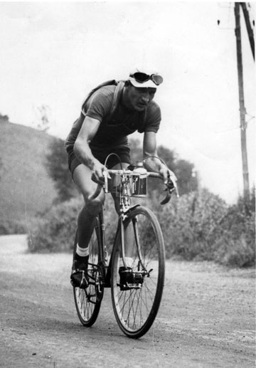 Gino Bartali (1914-2000) Italian cyclist, king of the mountain in the 1938 Tour de France, which he also won.